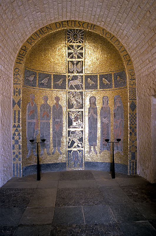 German War Cemetery, el-Alamein, Egypt